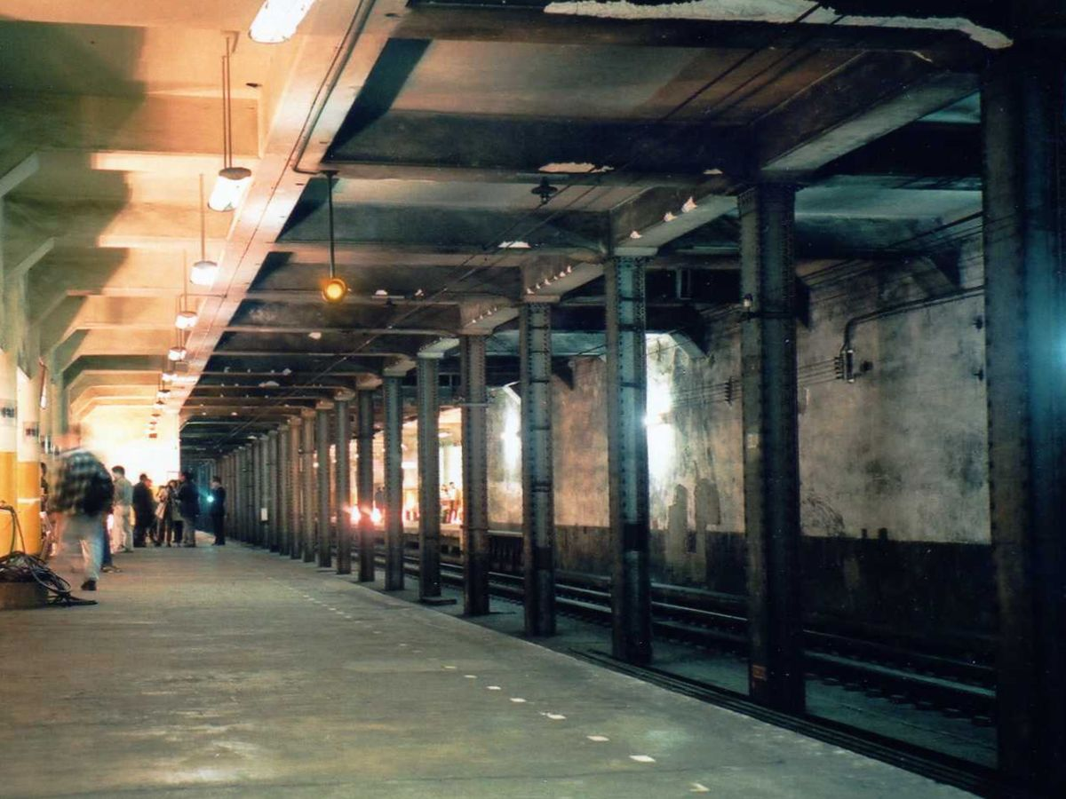 Platform of Hakubutsukan-Doubutsuen Sta.